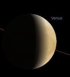 The second planet from the sun in our solar system